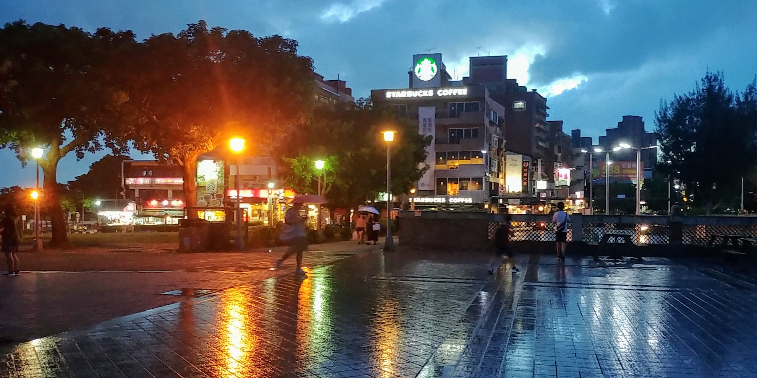 This photo is taken to a Starbucks store in a certain square of Riverside Park in the Tamsui sunset view of the Tamsui River near the third exit of Tamsui Station. Because it was just raining in the evening, the golden street lights reflected on the pavement and the woods on the left side. On the right side, there was no light, and a cool blue tone appeared. It was said to be "black and white."